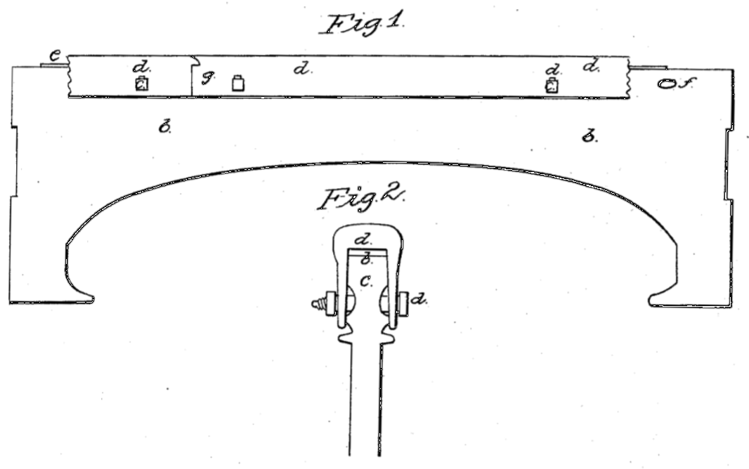 Sidney A. Beeers: Letters Patent No. 20,248, dated 18 May 1858